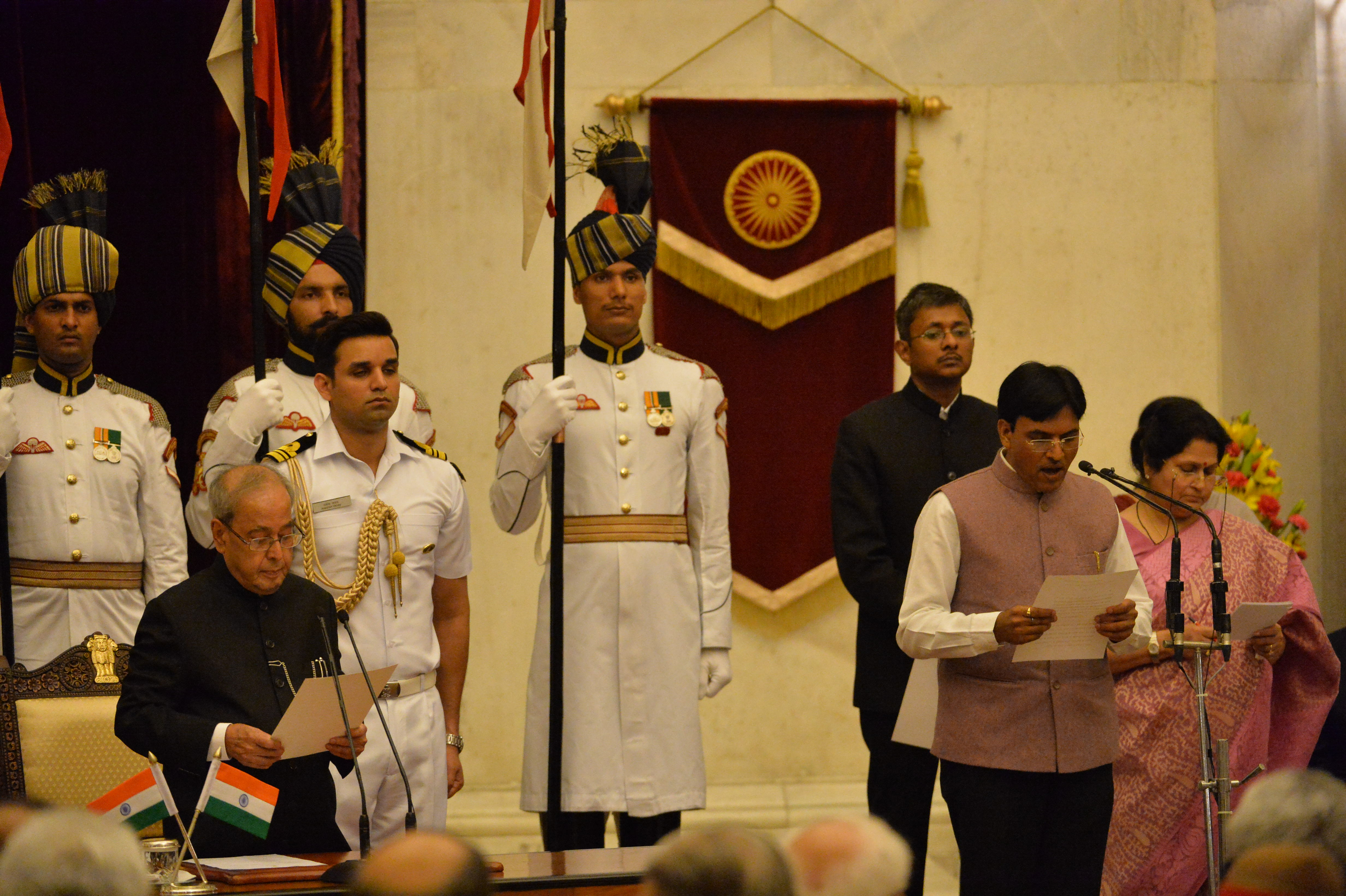 Shri Mansukh Mandaviya taking oath as Union Minister.